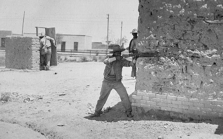 Bain News Service,, publisher. The attack on Juarez [between 1910 and 1915] 1 negative : glass ; 5 x 7 in. or smaller. Notes: Title from unverified data provided by the Bain News Service on the negatives or caption cards. Forms part of: George Grantham Bain Collection (Library of Congress). Subjects: Mexico Format: Glass negatives. Repository: Library of Congress, Prints and Photographs Division, Washington, D.C. 20540 USA, General information about the Bain Collection is available at Persistent URL: Call Number: LC-B2- 2198-6